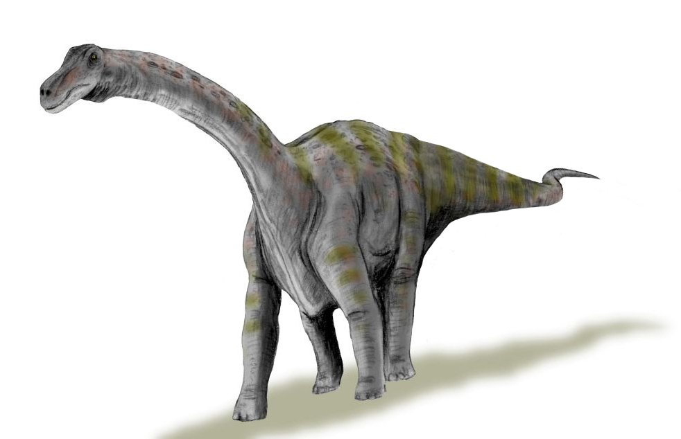 Rapetosaurus krausei, a titanosaur from the Late Cretaceous of Madagascar, pencil drawing, digital coloring